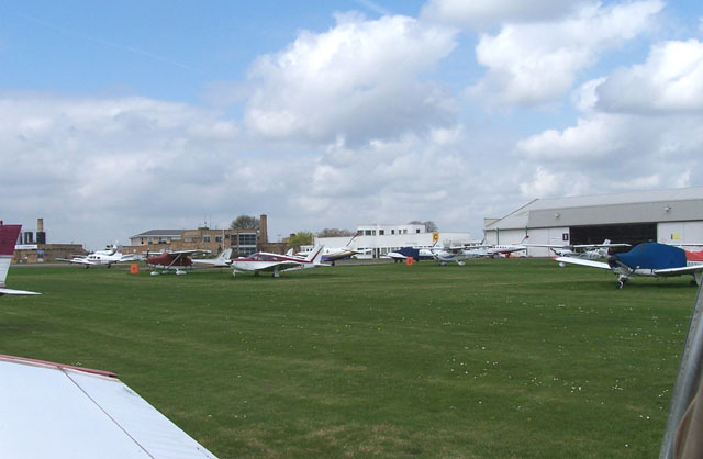 General Aircraft (GA) parking at Cambridge Airport I took this picture from the wing of Cherokee G-AVUU parked in the GA parking at Cambridge Airport. The white building with the yellow square, with a black C, is the flight briefing room at Cambridge Airport. This is for pilots of light aircraft to report to when using the airport. I took this picture when I landed there during my cross-country qualifying flight. The flight must cover 150 nautical miles, during which you must land at two different airports.